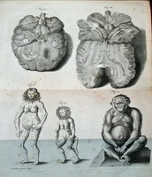 Picture of Edward Tyson's, The anatomy of a Pygmy compared with that of a monkey, an ape and a man. Second Edition. London.